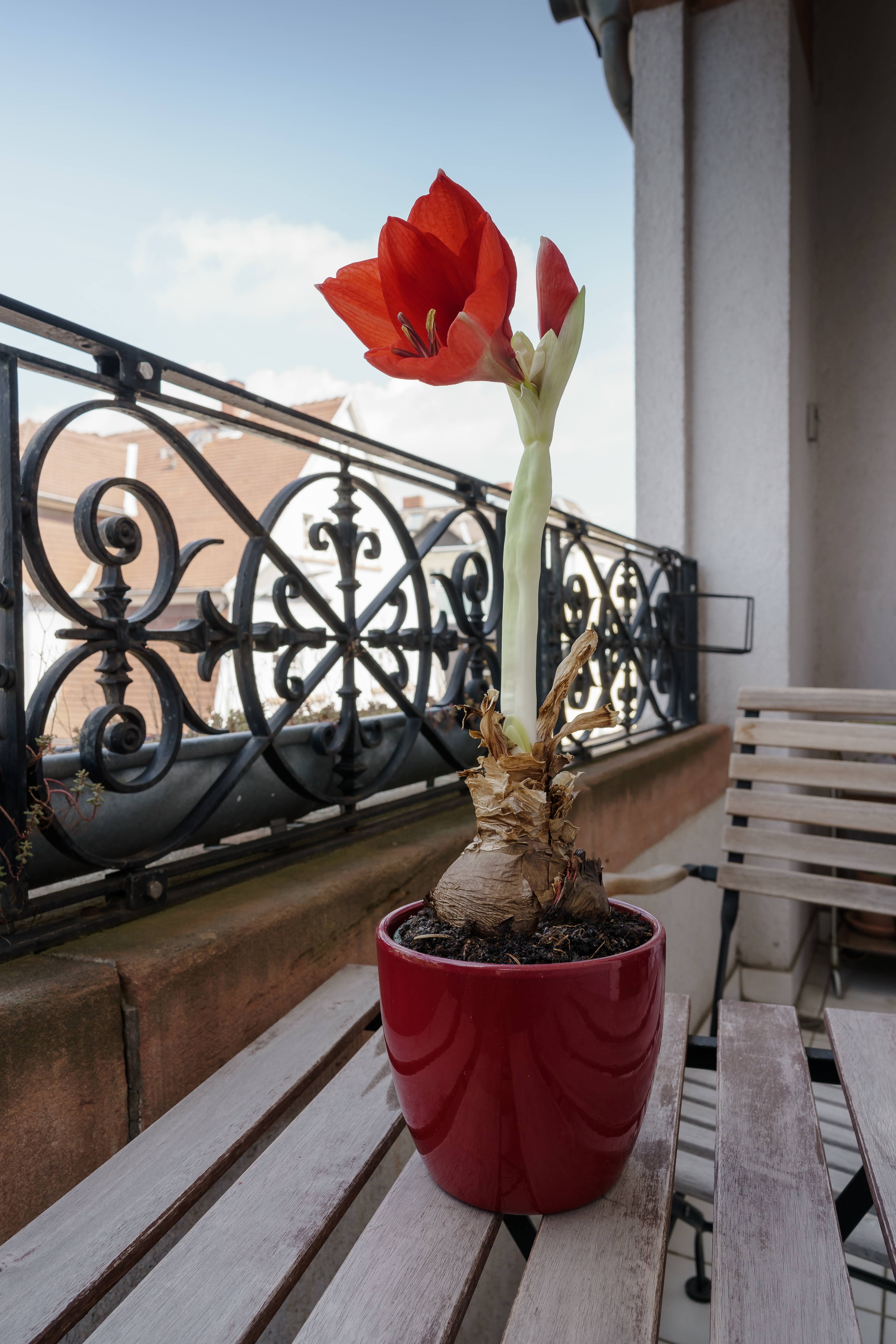 Hippeastrum